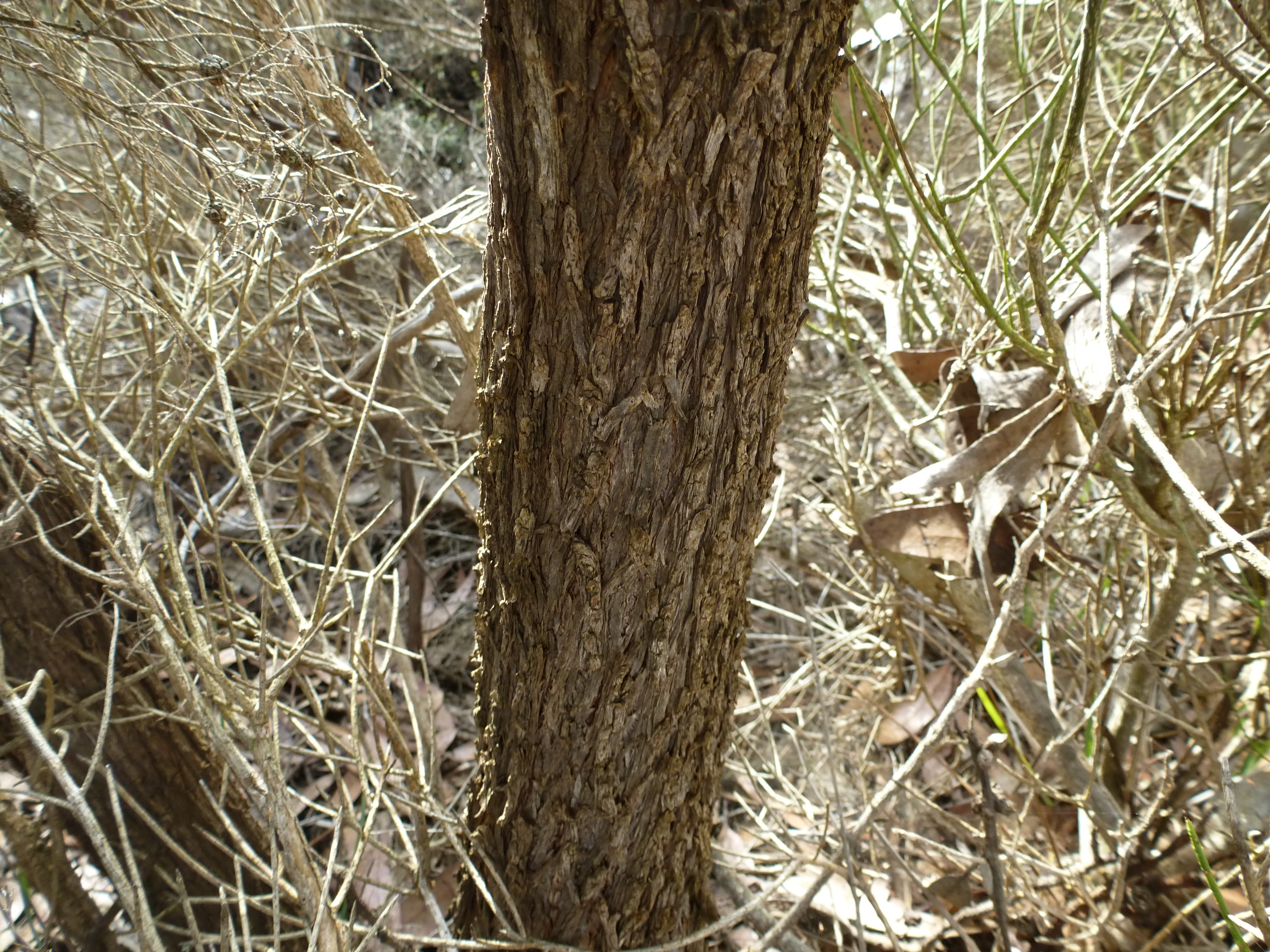 Melaleuca thyoides growing along Scaddan Road